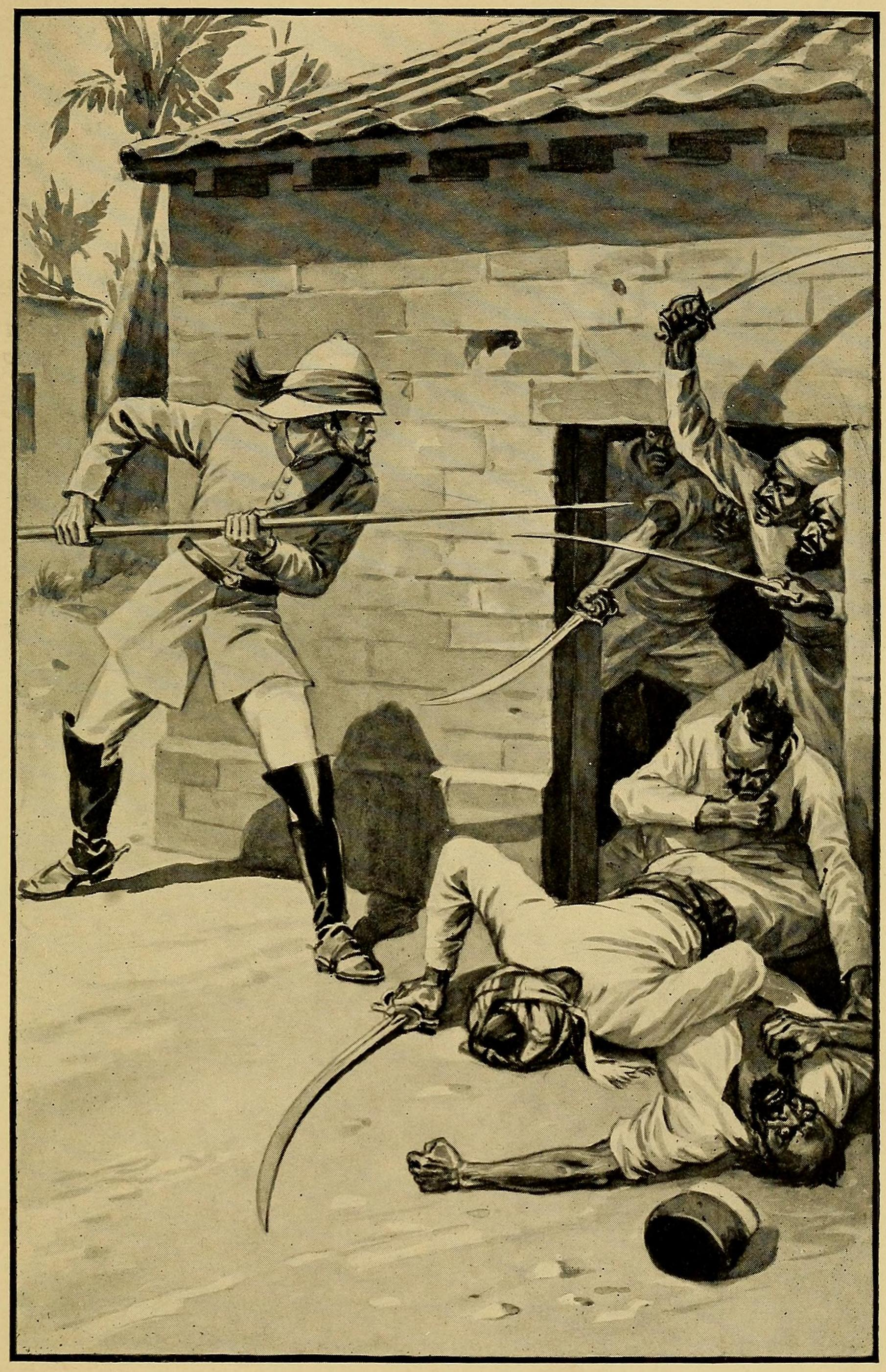 Heroes of the Indian mutiny; stories of heroic deeds by Gilliat, Edward, 1841-1915 Publication date 1914 Publisher Philadelphia, J. B. Lippincott company; London, Seeley, Service & co., ld. Collection library_of_congress; americana Digitizing sponsor The Library of Congress Contributor The Library of Congress Language English Call number 5895008 Camera Canon 5D Identifier heroesofindianmu00gill Identifier-ark ark:/13960/t7jq1p012 Identifier-bib 00009675930 Ocr ABBYY FineReader 8.0 Openlibrary_edition OL24239669M Openlibrary_work OL15222791W Page-progression lr Pages 382 Possible copyright status The Library of Congress is unaware of any copyright restrictions for this item. Ppi 400 Scandate 20100604151749 Scanner Scanningcenter capitolhill Full catalog record MARCXML